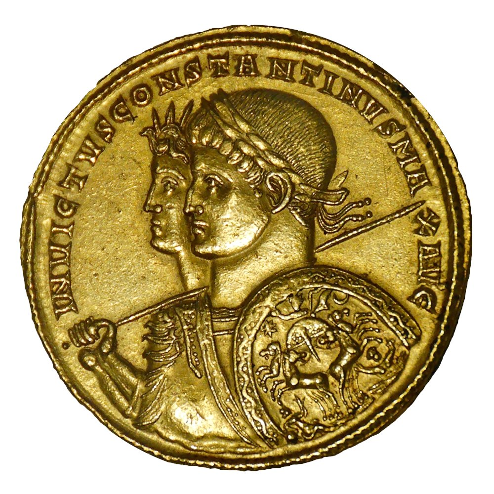 Busts left of Sol Invinctus radiate and Constantine laureate and cuirassed, holding spear over right shoulder and oval shield on left arm with galloping sun quadriga. Gold nine-solidus multiple minted in Ticinum (Pavia) in 313 AD.